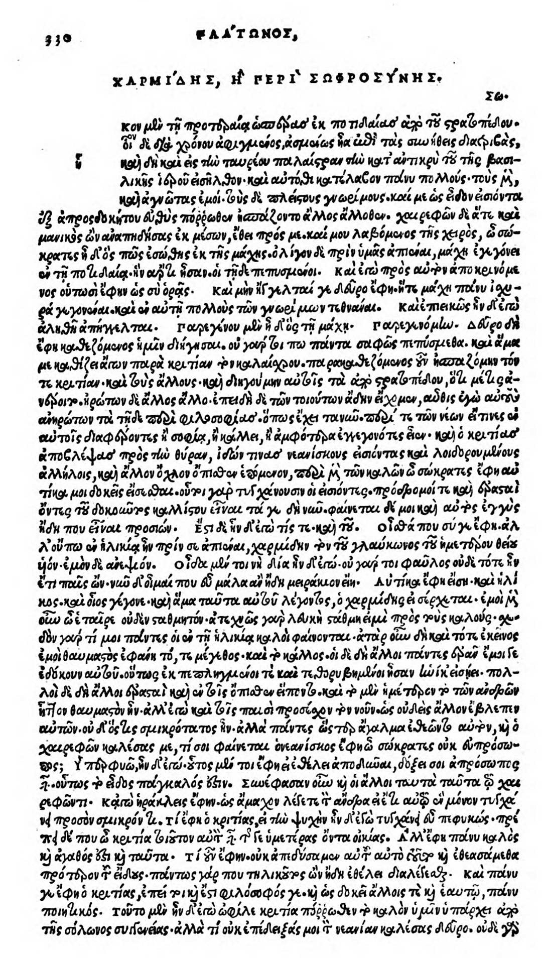 Charmides beginning. Editio princeps, Venice 1513.